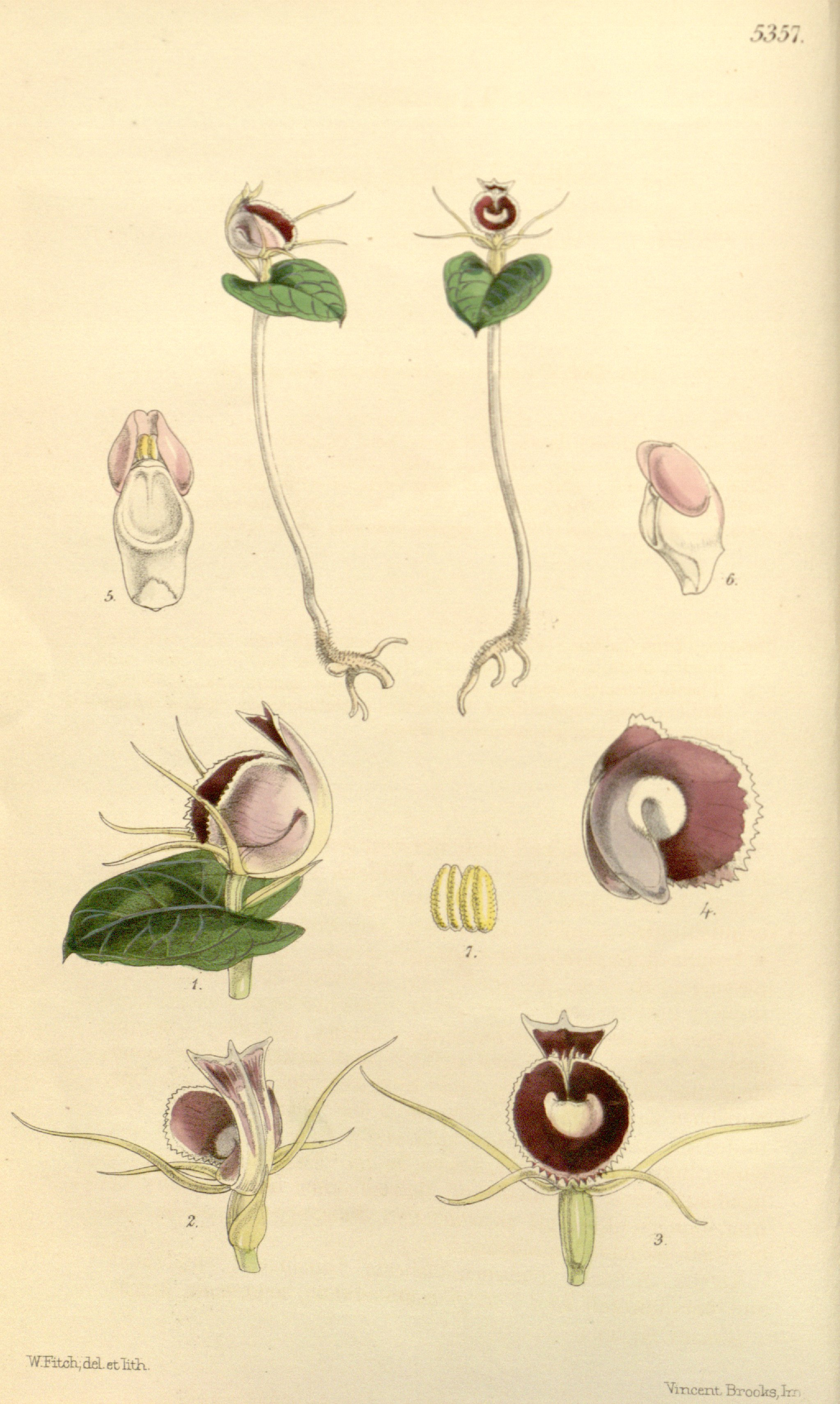 Illustration of Corybas pictus (as syn. Corysanthes limbata)